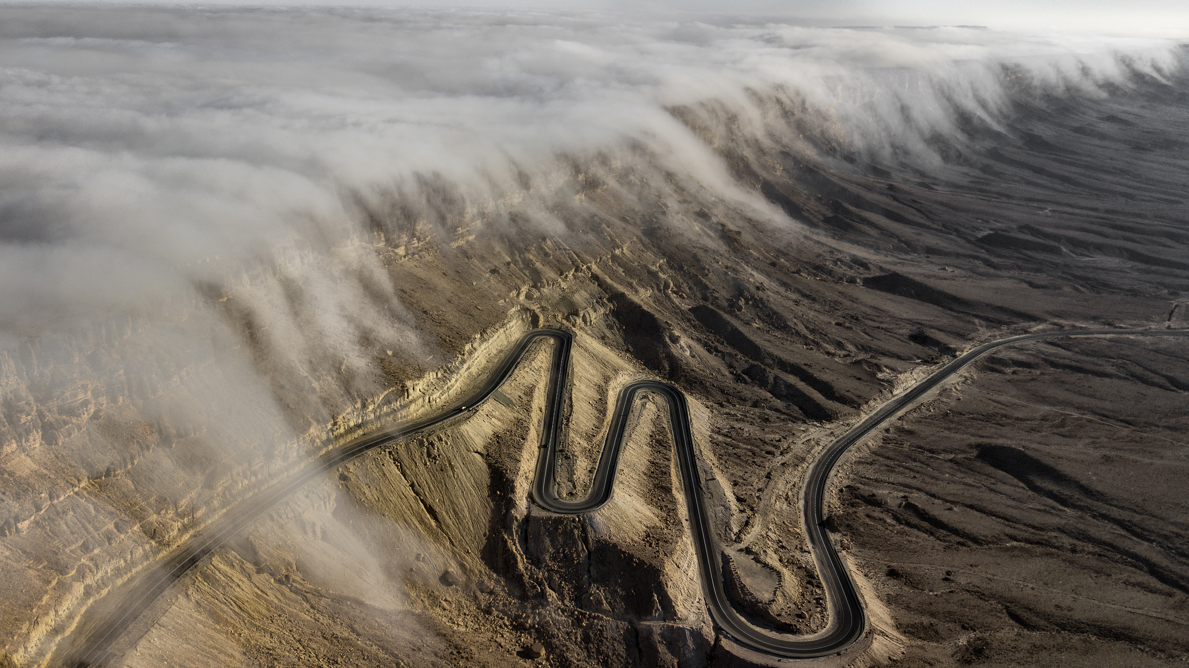 Aerial photo of clouds gliding in Makhtesh Ramon, Negev desert, Israel.